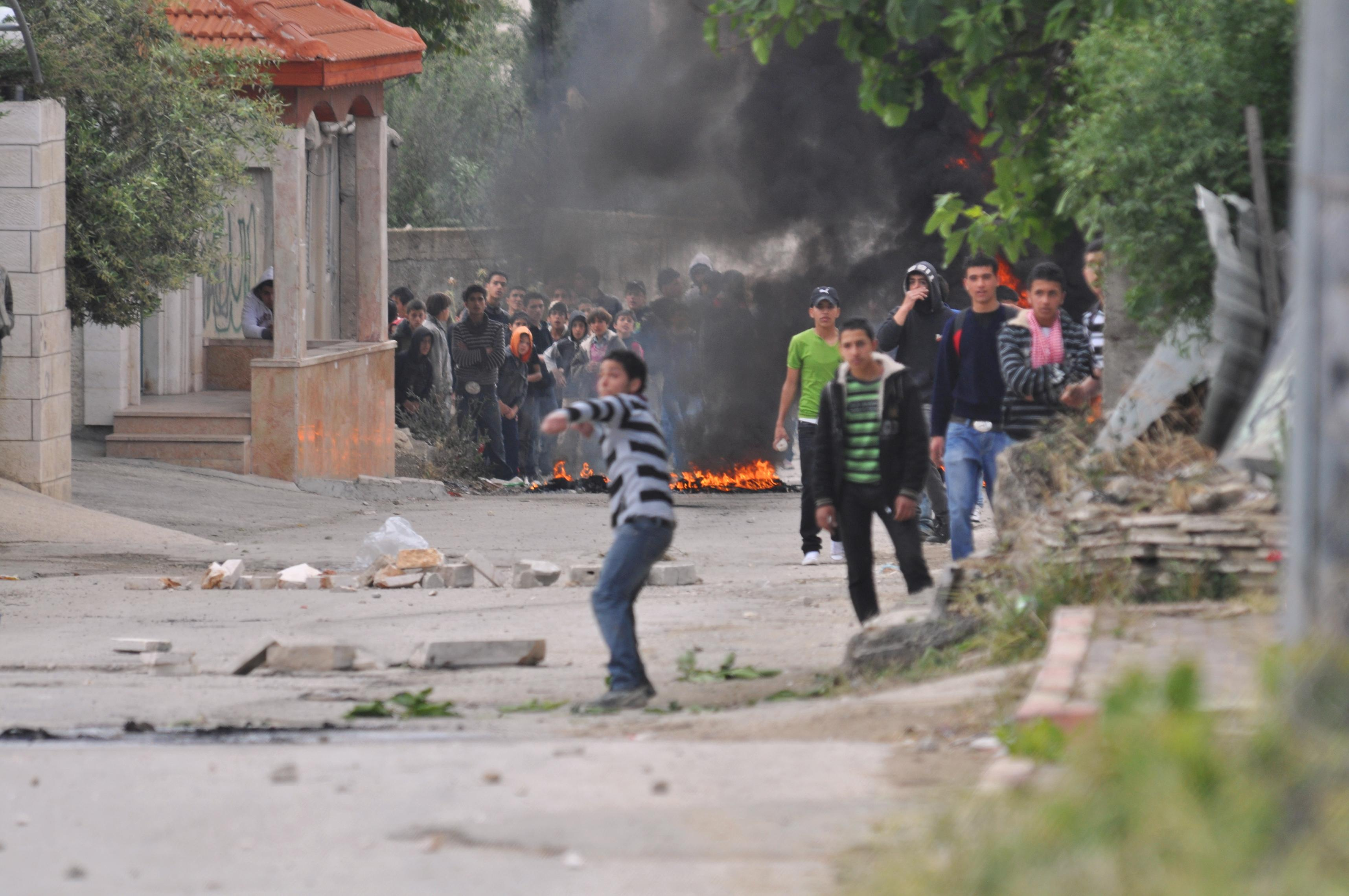 May 15, 2011. During the morning hours approximately 100 Palestinians gathered near El-Arrub, southwest of Bethlehem, in a violent and illegal riot. The rioters hurled rocks and firebombs at security forces, who responded with riot dispersal means.